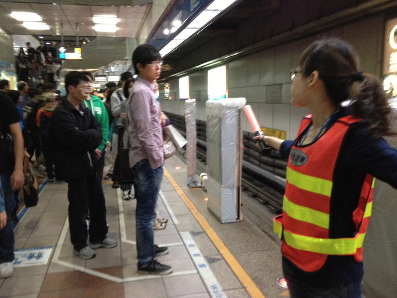 Automatic Platform Gate Installation at Bannan Line Platform, Zhongxiao Xinsheng Station.中文（台灣）: 忠孝新生站板南線月台閘門安裝中。